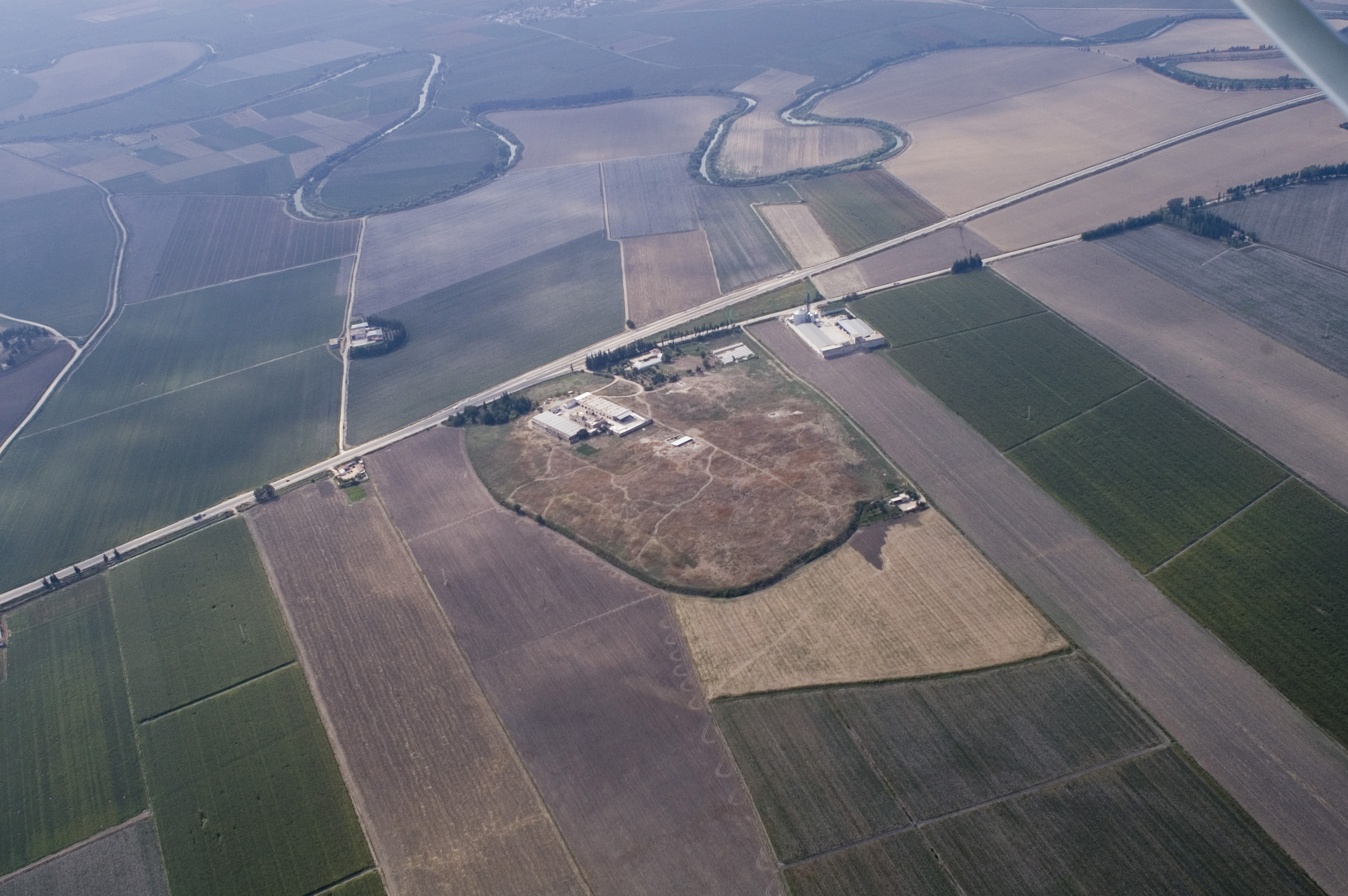 Tayinat Flyover